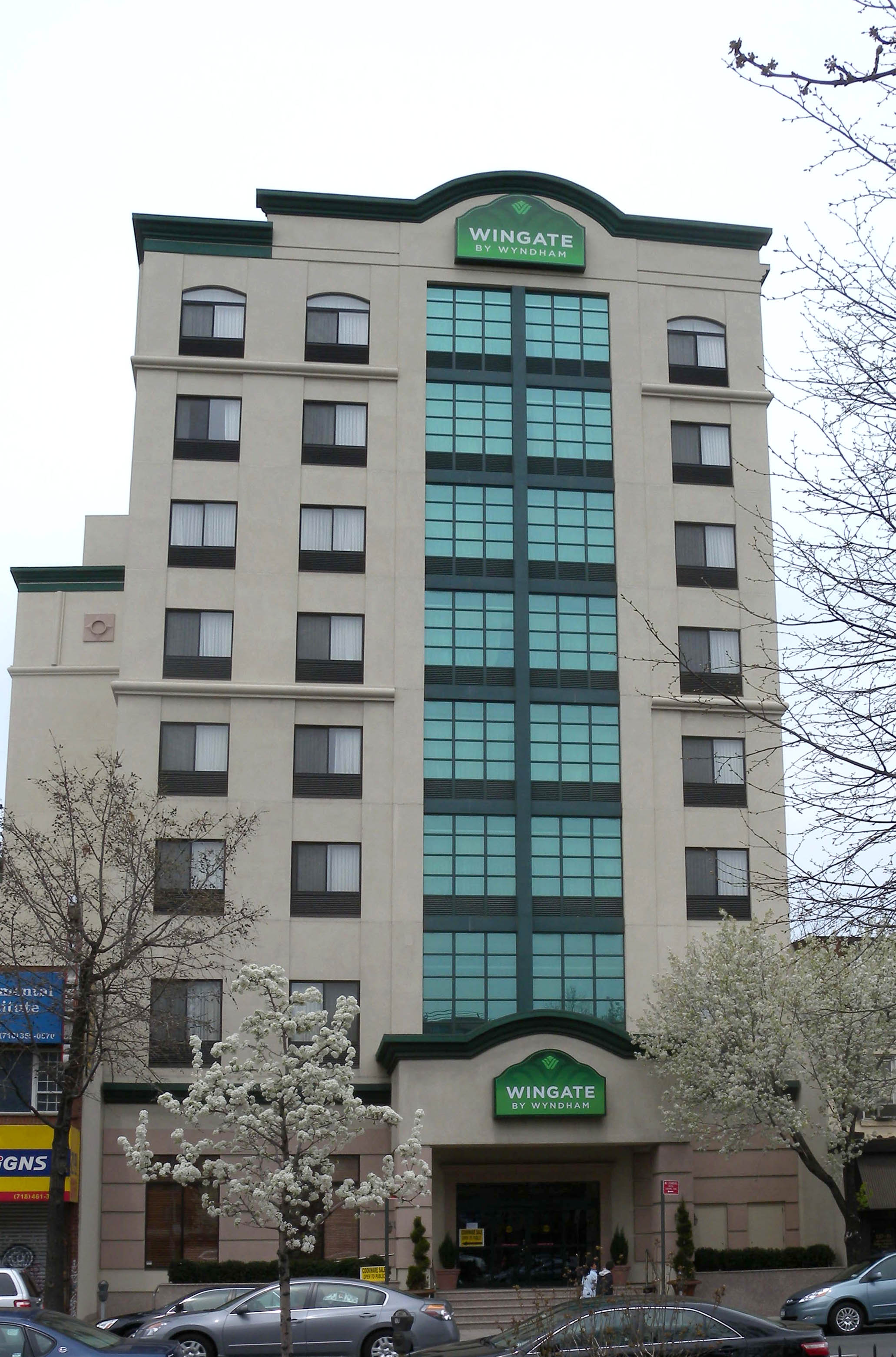 Looking north across Northern Boulevard at Windgate Wyndham Hotel on a cloudy midday.